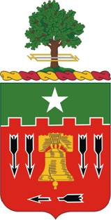 5th Field Artillrty Regiment Coat Of Arms